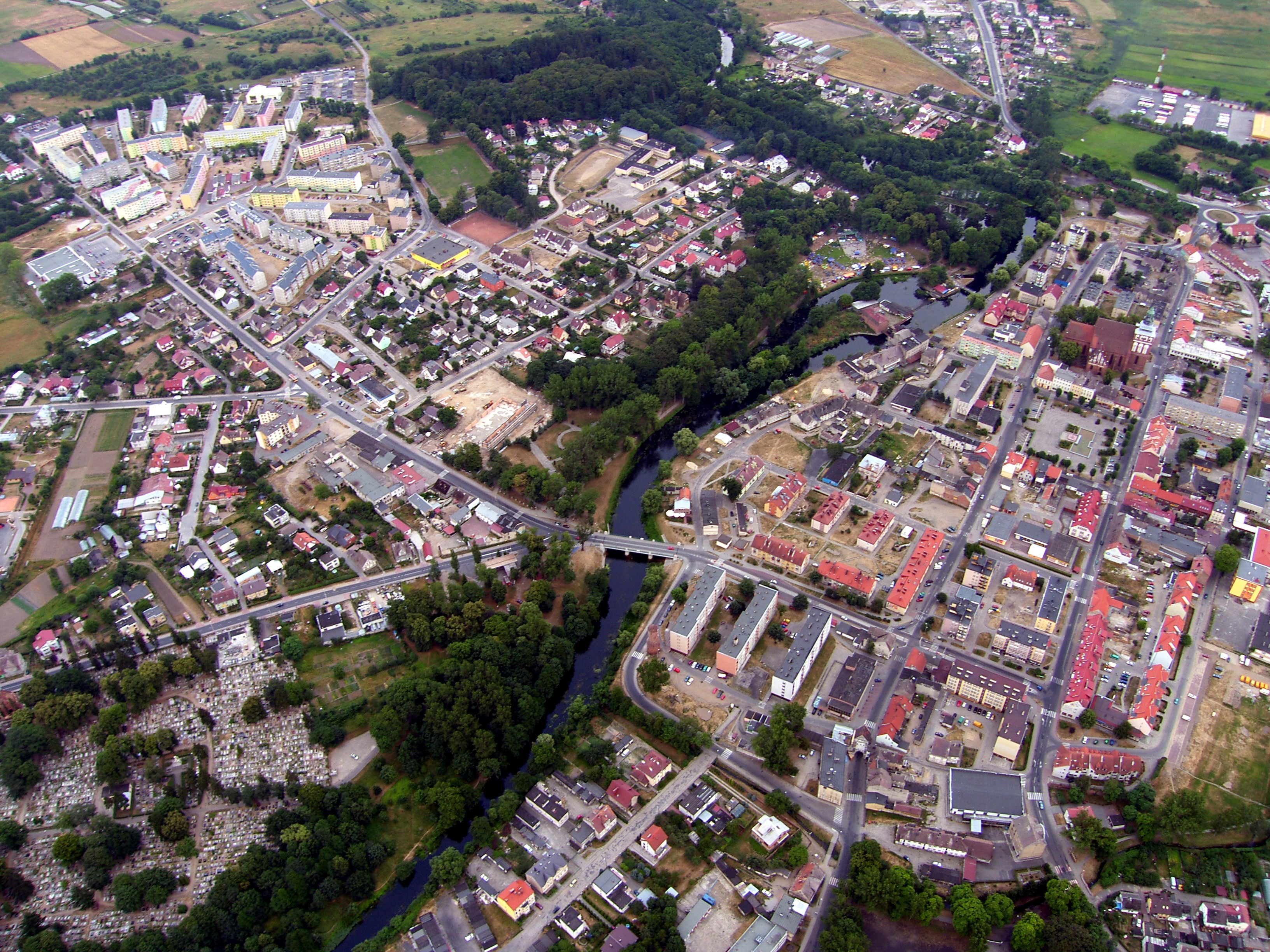 Bird's-eye view on Gryfice (Poland)